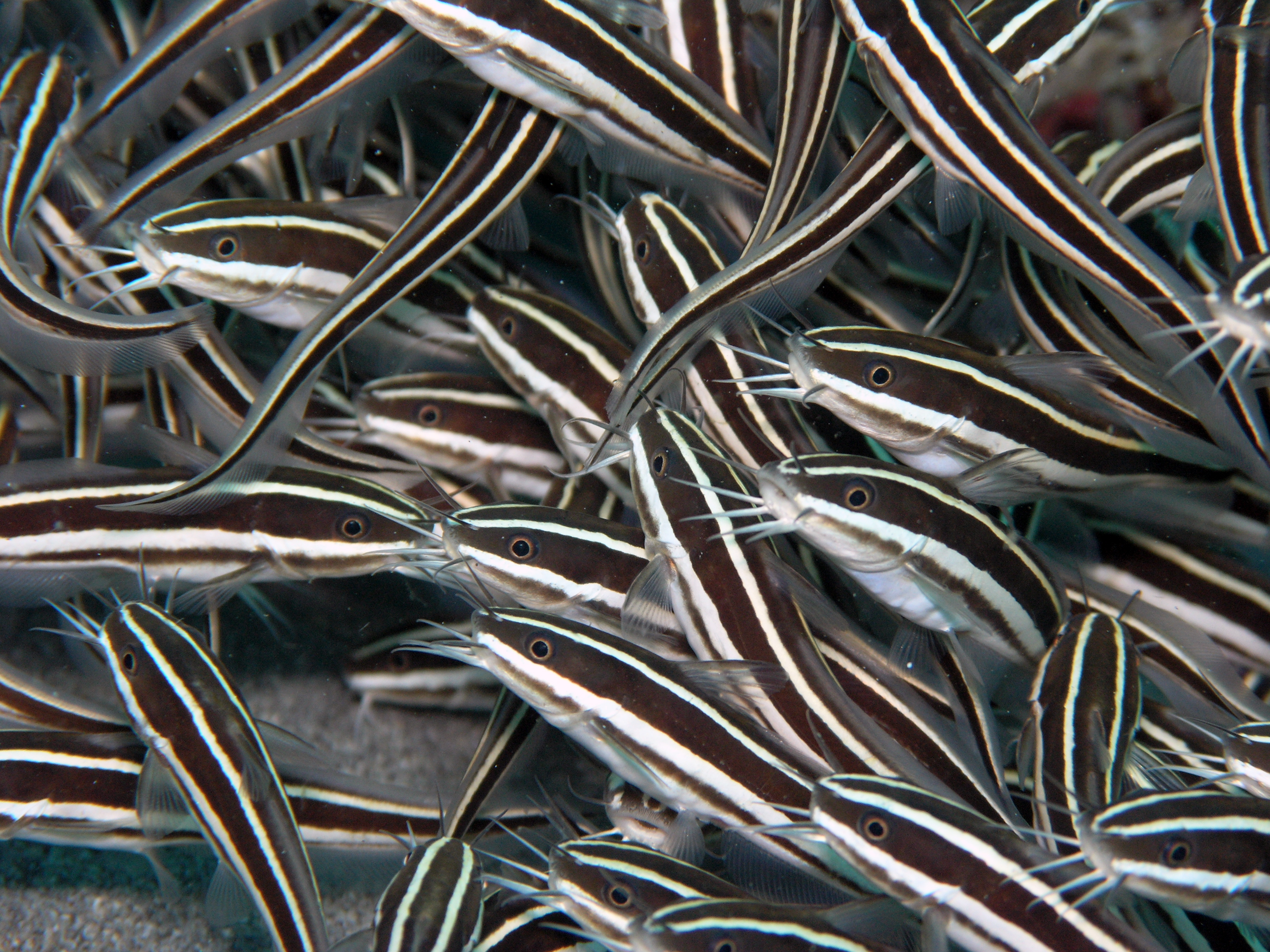 Striped eel catfish, Plotosus lineatus. Photo by J. Petersen taken in Manado, North Sulawesi, Indonesia.